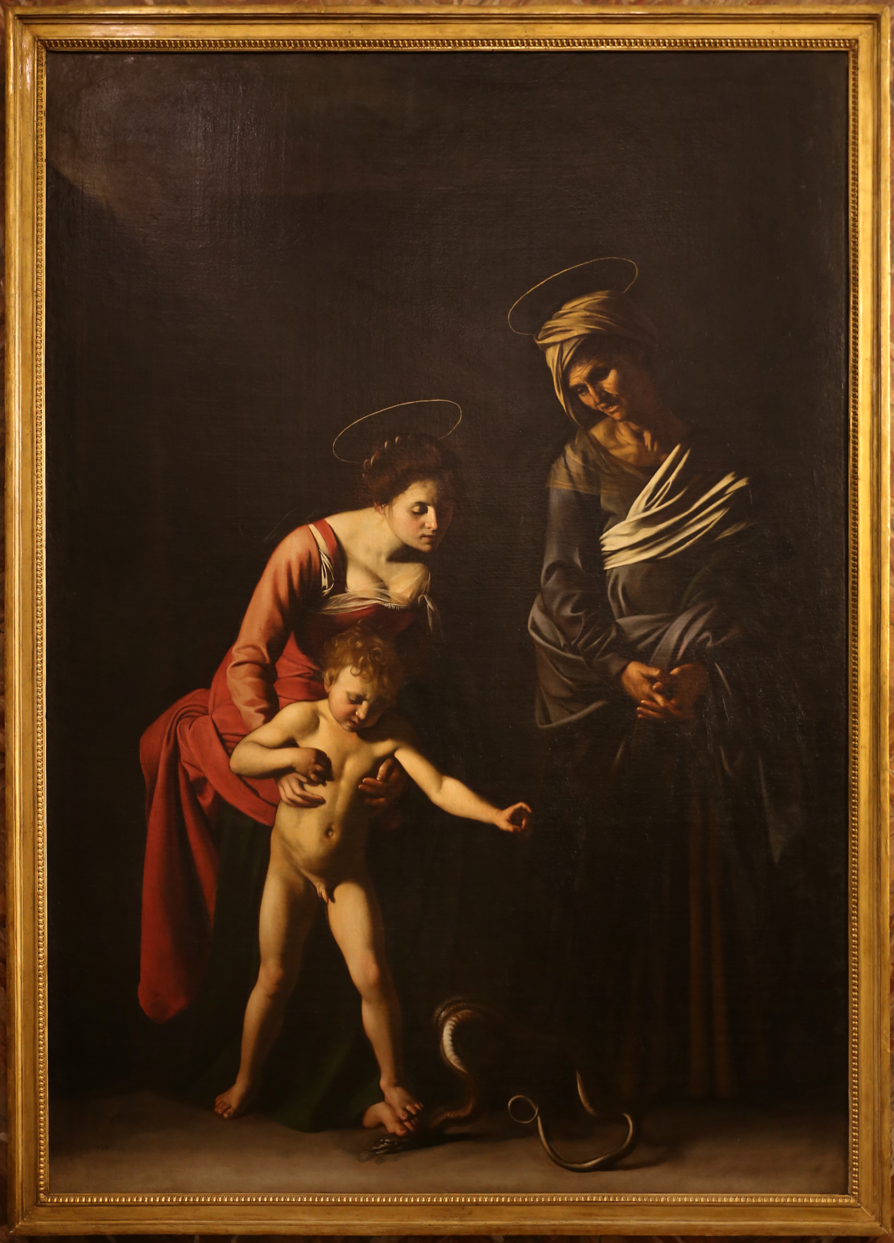 Paintings in Galleria Borghese (Rome)